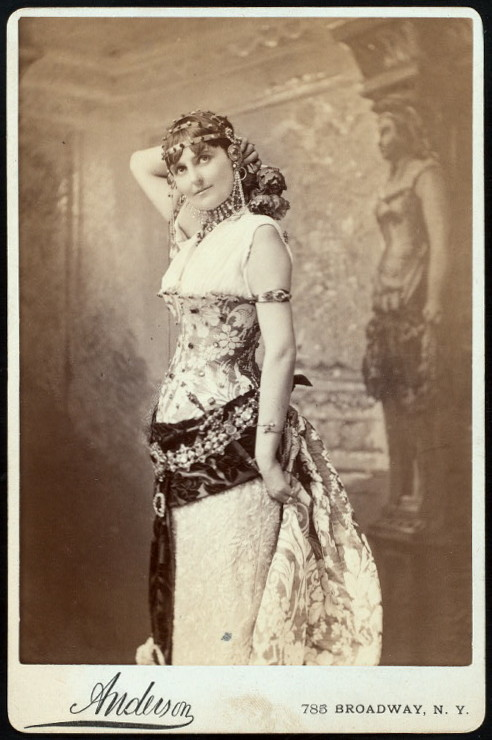 Laura Don